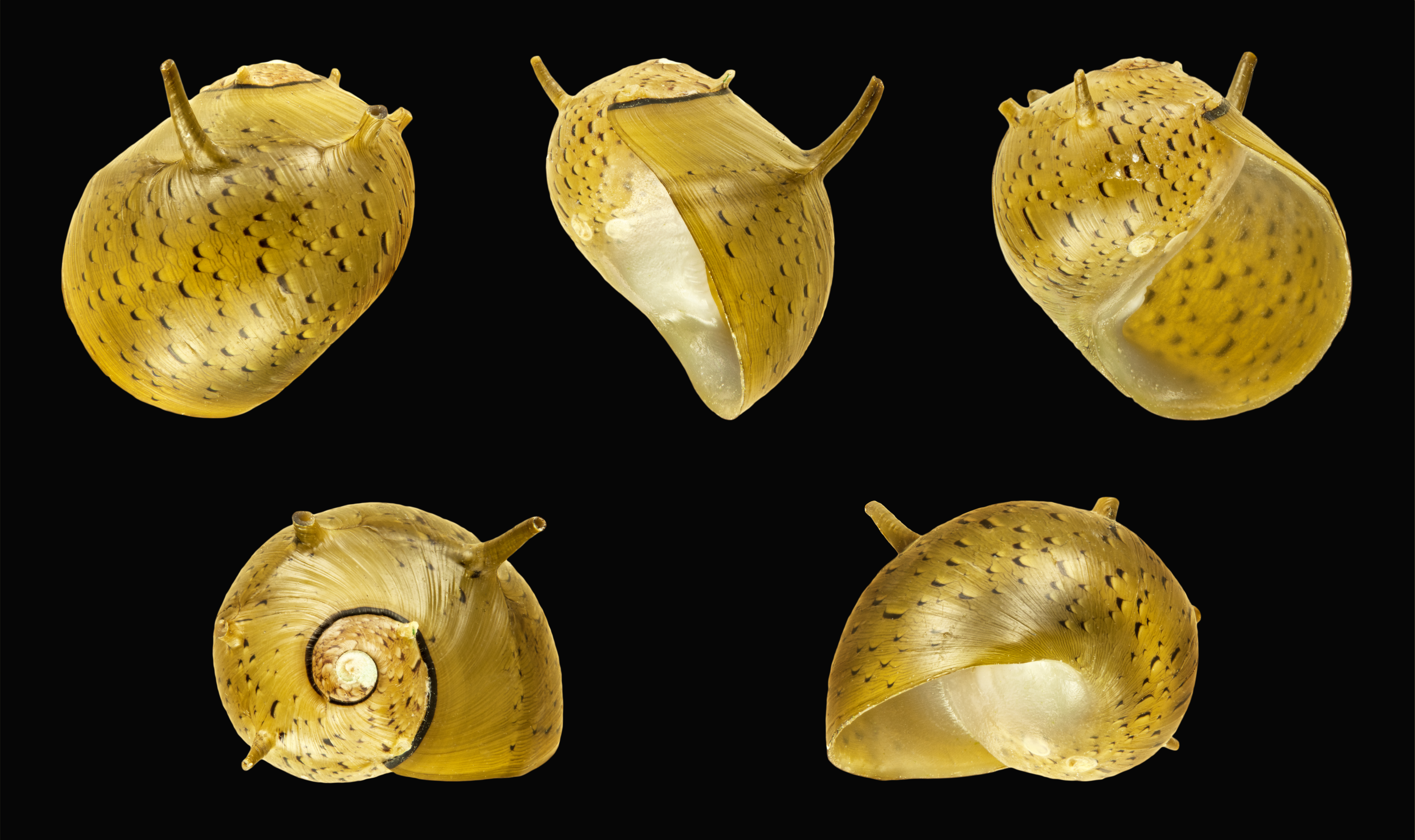 Clithon diadema Récluz, 1841, Crown Nerite, spotted form; Height (without spines) 1.0 cm; Originating from an aquarium; Shell of own collection, therefore not geocoded.